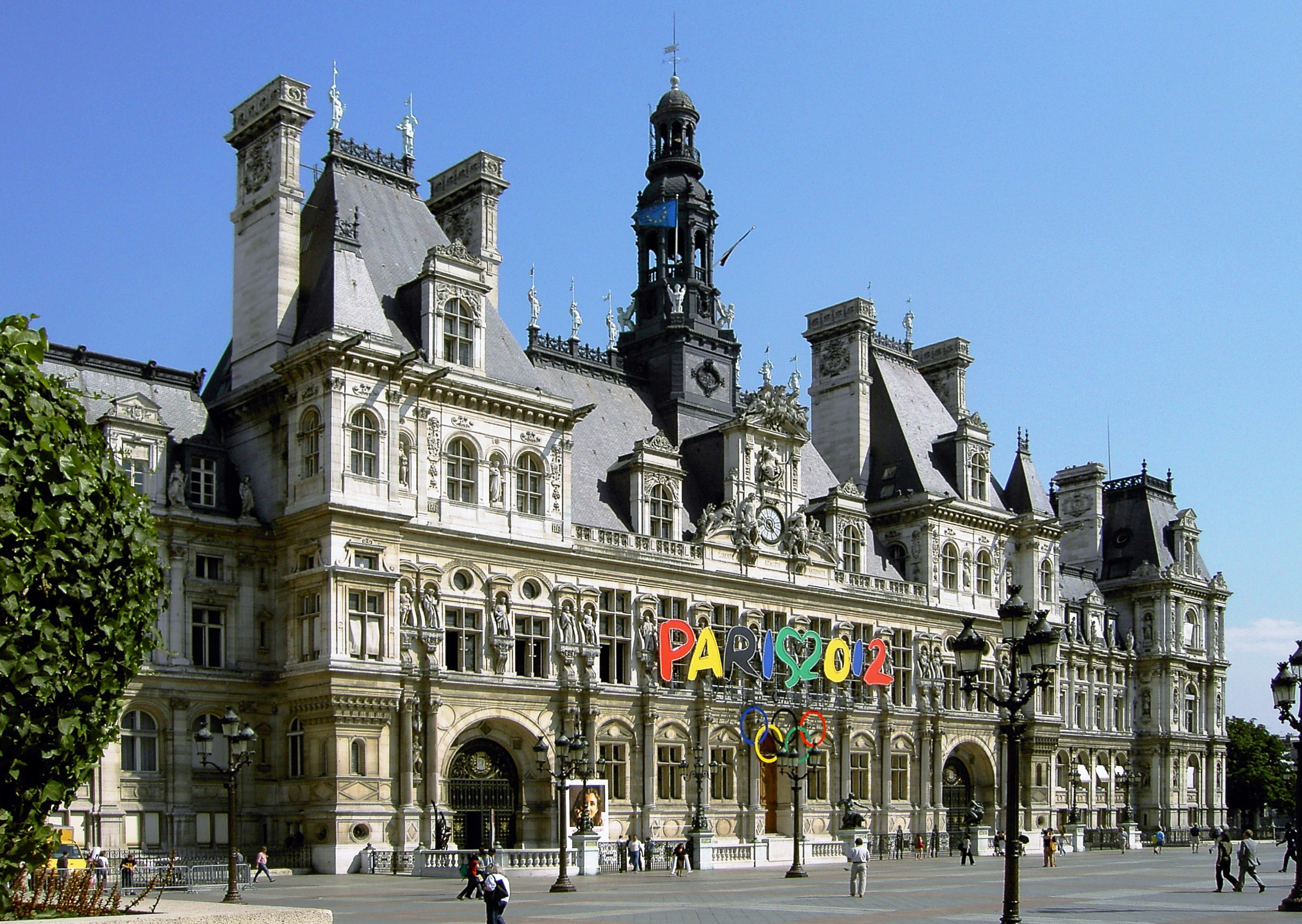 A photo of Hotel de Ville de Paris during its 2012 Olympic Bid, photo taken in 2005